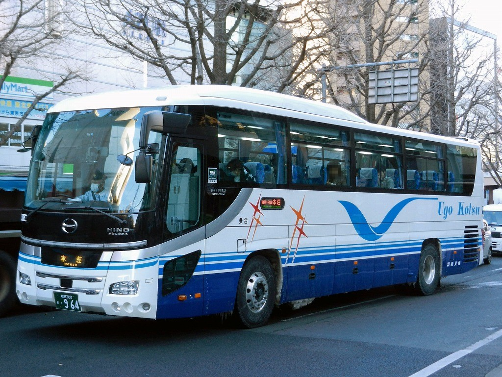 Ugo Kotsu Hino S'elega (QRG-RU1ASCA) highwaybus "Honjo,Sakata-Sendai"